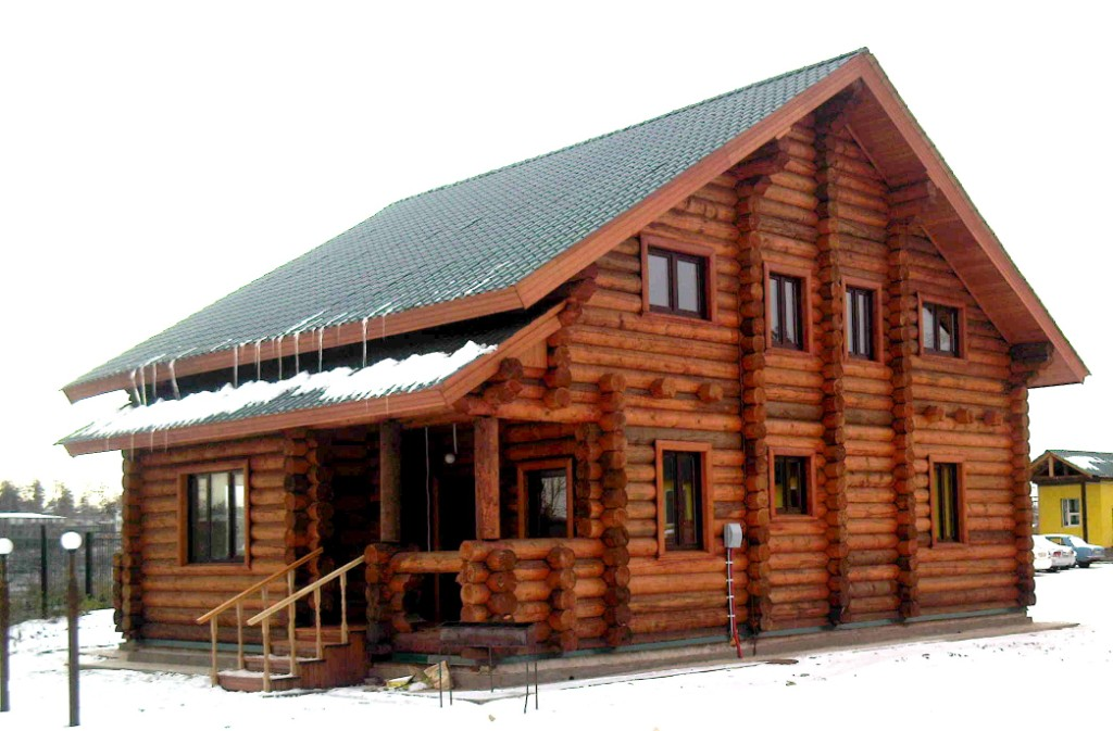 carcass rounded timber from alyans